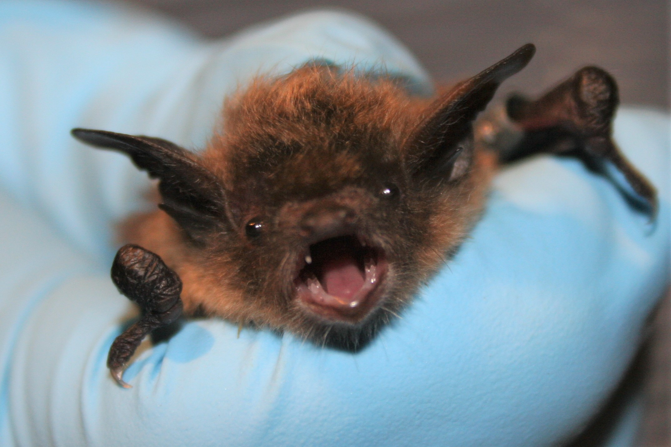 USFWS biologist holds little brown bat